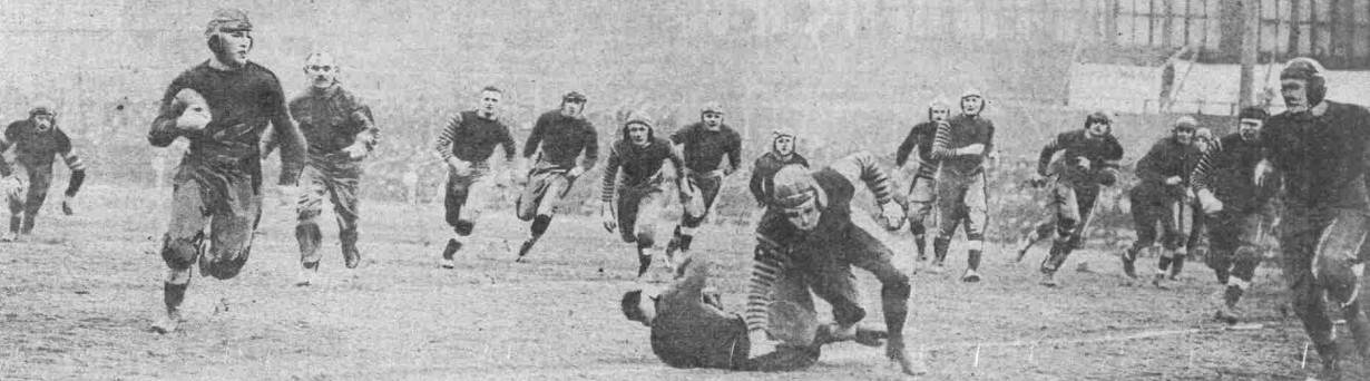 University of Oregon left back Vincent Jacobberger carries the ball while being chased by Multnomah Athletic Club defenders during their annual match on Thanksgiving Day 1919.